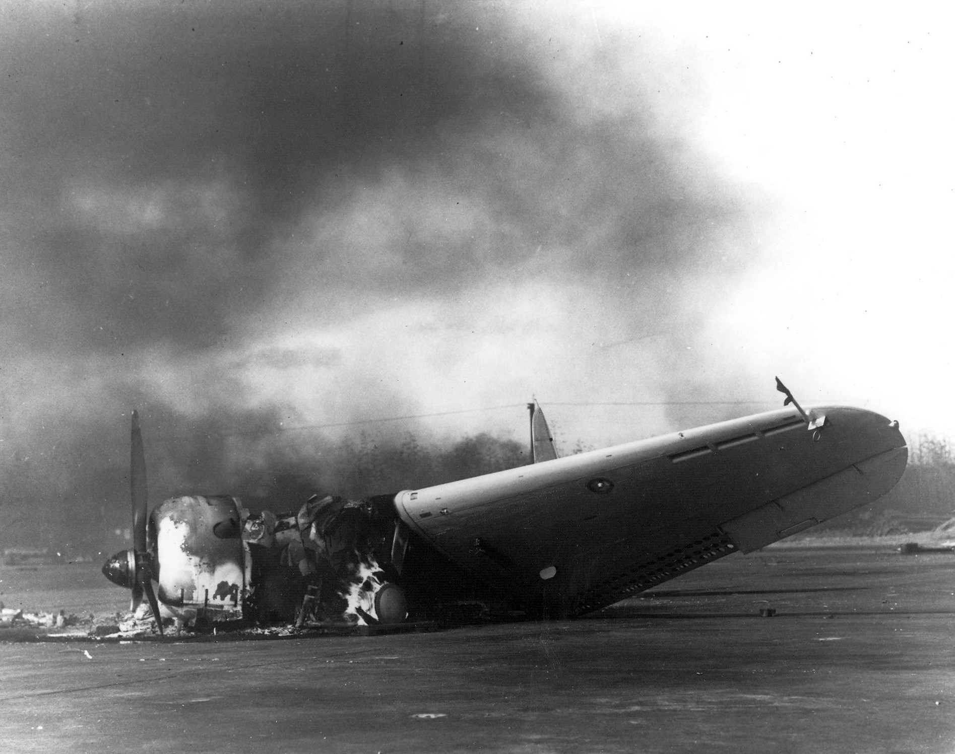 The burning wreckage of an U.S. Marine Corps Douglas SBD Dauntless dive bomber pictured at Ewa Mooring Mast Field (later Marine Corps Air Station (MCAS) Ewa, Hawaii) after the Japanese attack on 7 December 1941.